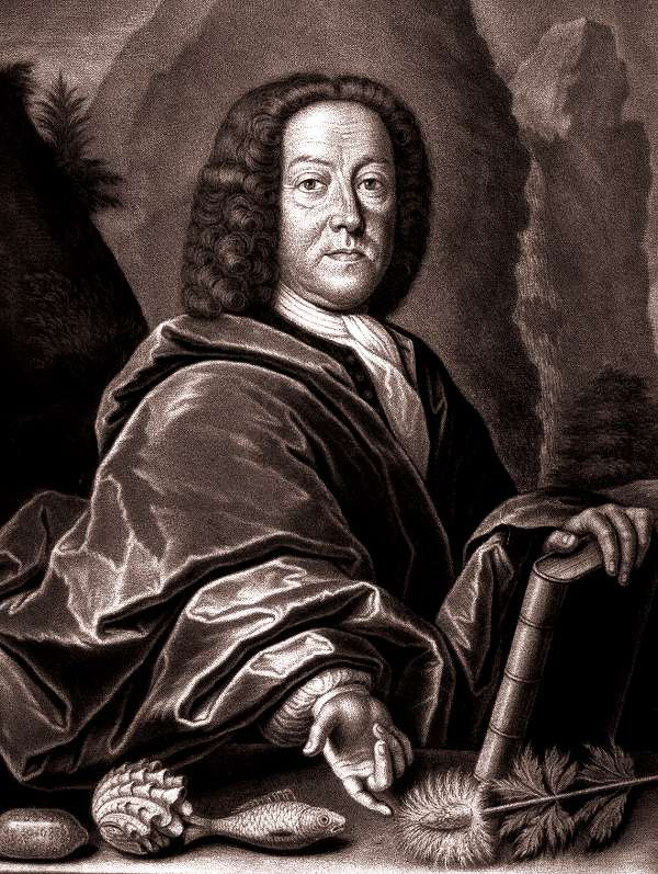 Johann Jakob Scheuchzer, Swiss natural historian, paleontologist, physicist & geographer.